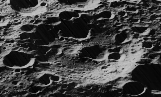 Oblique view of Emden, on the far side of the moon, facing west.